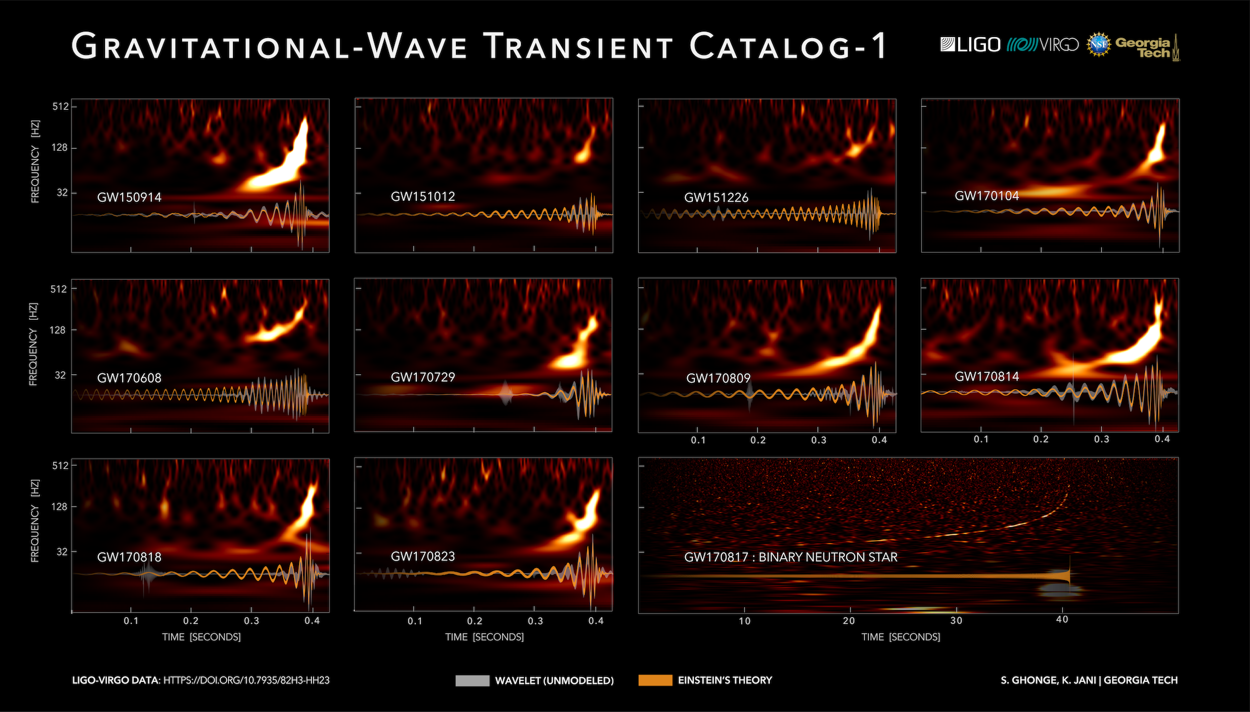 Spectrograms and waveforms for the gravitational-wave transient catalog. The insets of this image show the gravitational waveform (bottom) and time-frequency spectrogram for each confident detection in the gravitational-wave transient catalog. The spectrogram color indicates a measure of signal strength; the increase of signal frequency with time clearly shows the characteristic "chirp" signature of a binary inspiral. The waveforms shown at the bottom of each panel are produced from either a range of models based on Einstein's theory (orange) or a wavelet decomposition of the observed signal (gray).